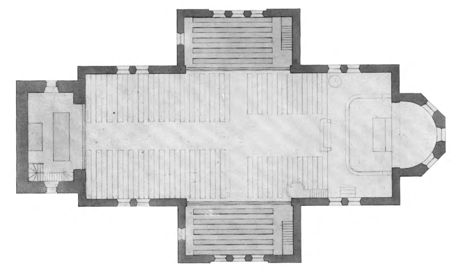 St. Nikolaj church. Plan of the gallery.